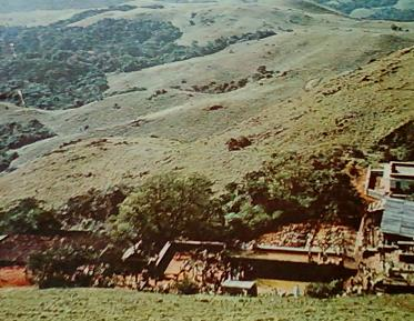 View of western ghats section in Karnataka.